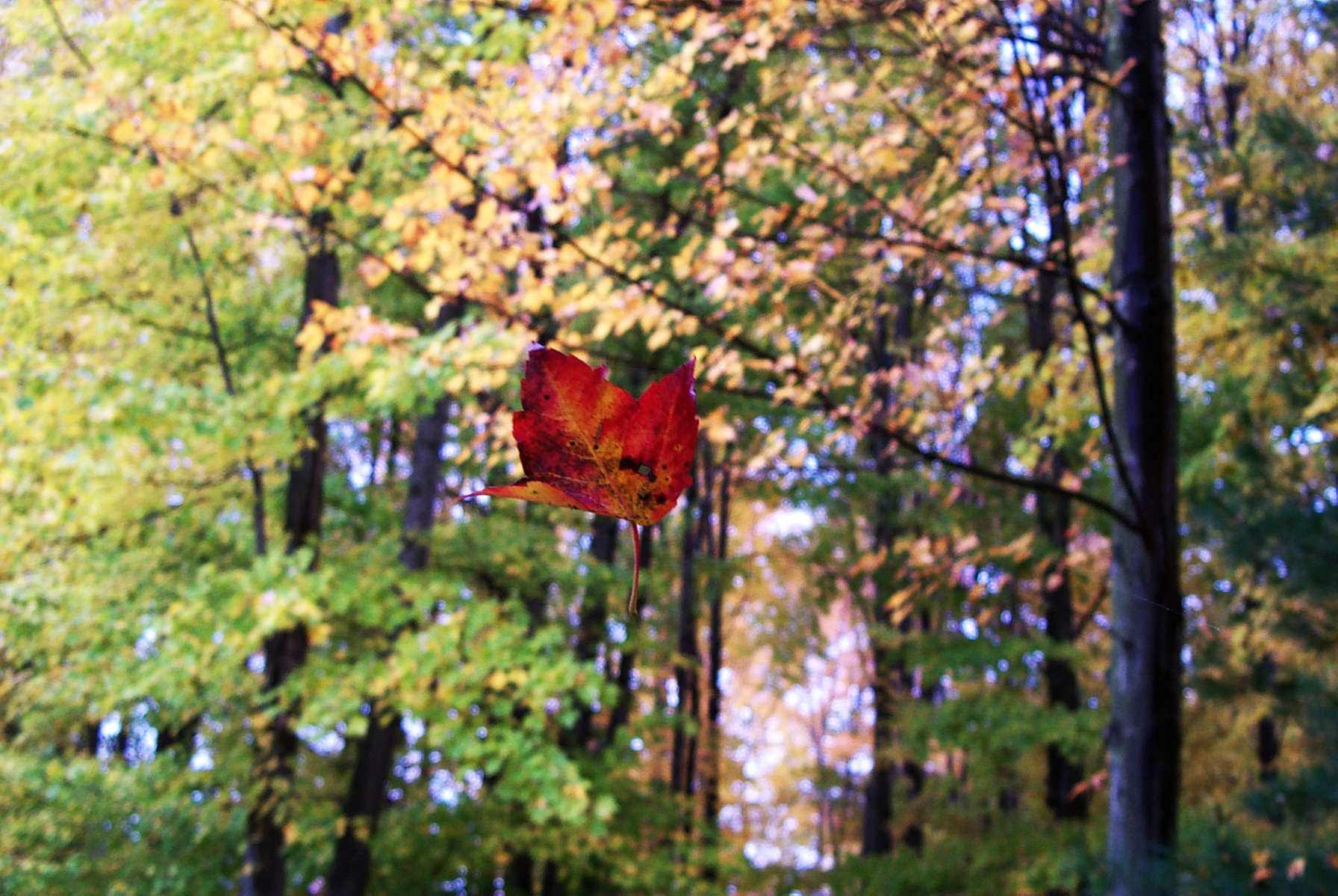 My first "shot" at photography. I went out into my yard one morning and found a leaf suspended in a spider's web. I snapped a few photos, but in my haste I forgot to set the focus manually, and the first several images came out with the suspended leaf blurred. Oops. By the time I had the focus set manually, the wind had blown the leaf out of the web. Luckily the web itself was still intact, so I located another leaf, balanced it in the web, and everything came out quite nicely. I used GIMP to increase the contrast a bit; other than that, the image is unaltered. --Dandaman32 23:51, 22 October 2006 (UTC)